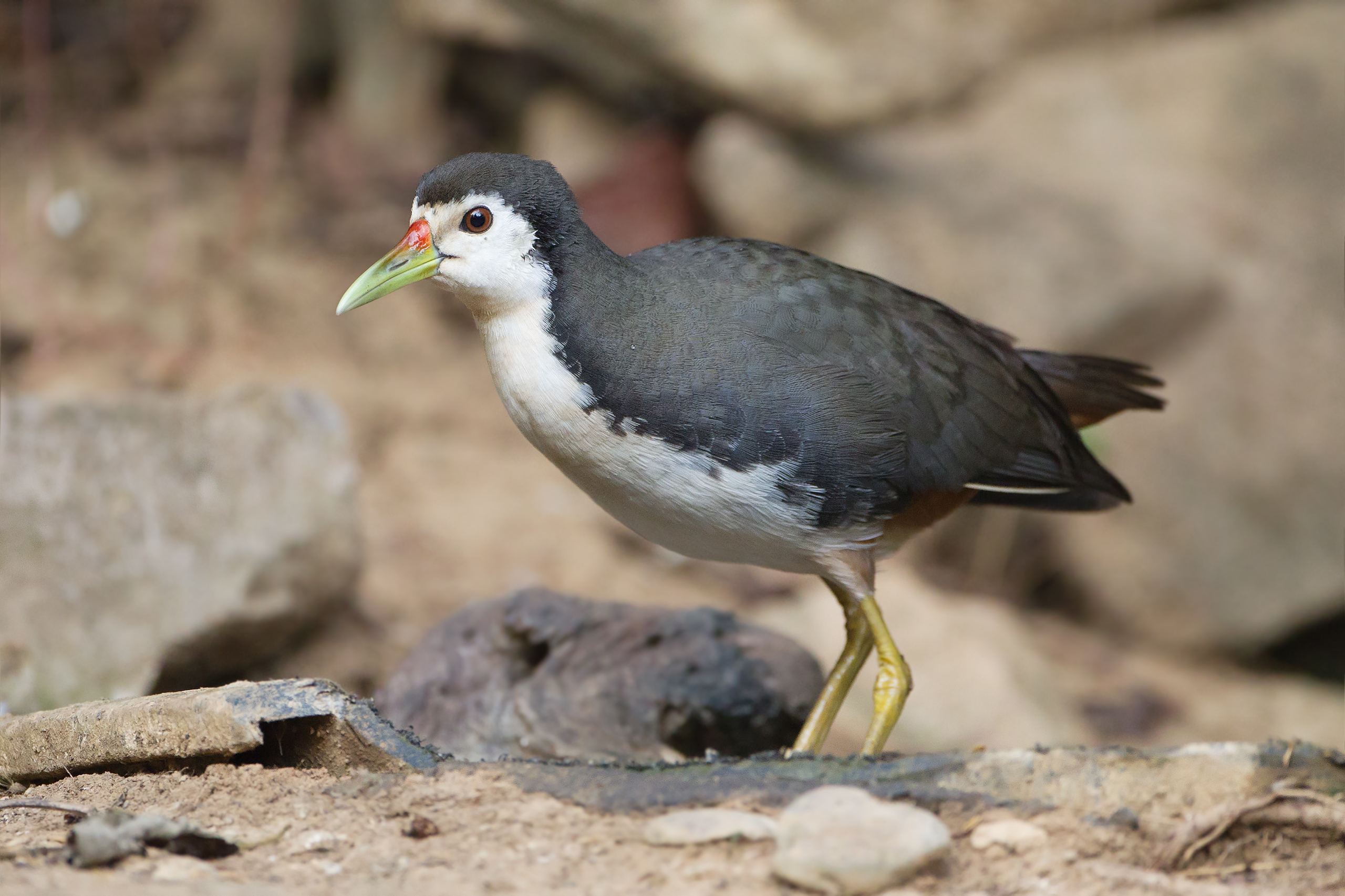 White-breasted Waterhen (Amaurornis phoenicurus), Kaeng Krachan, Phetchaburi, Thailand